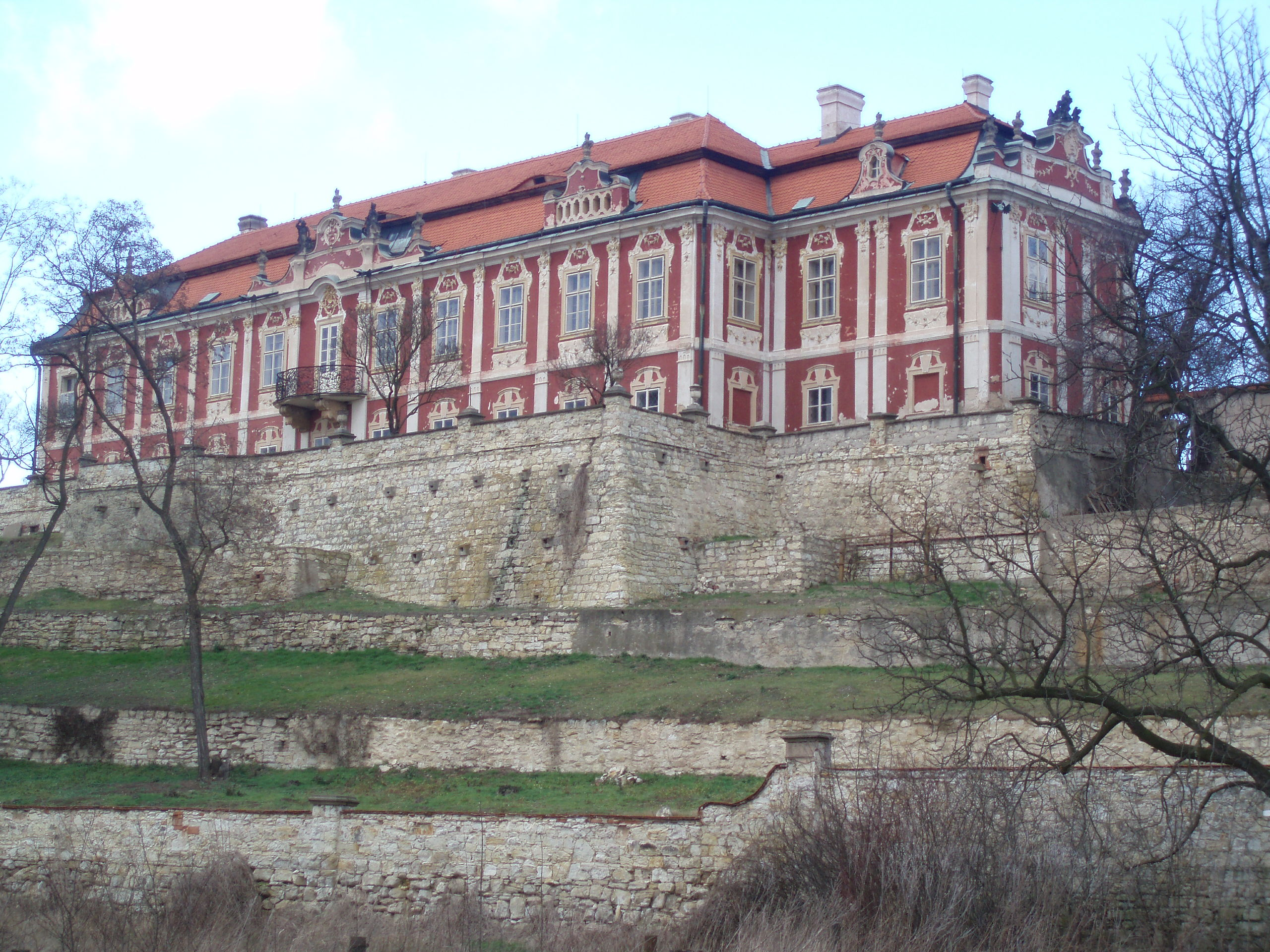 Castle in Stekník